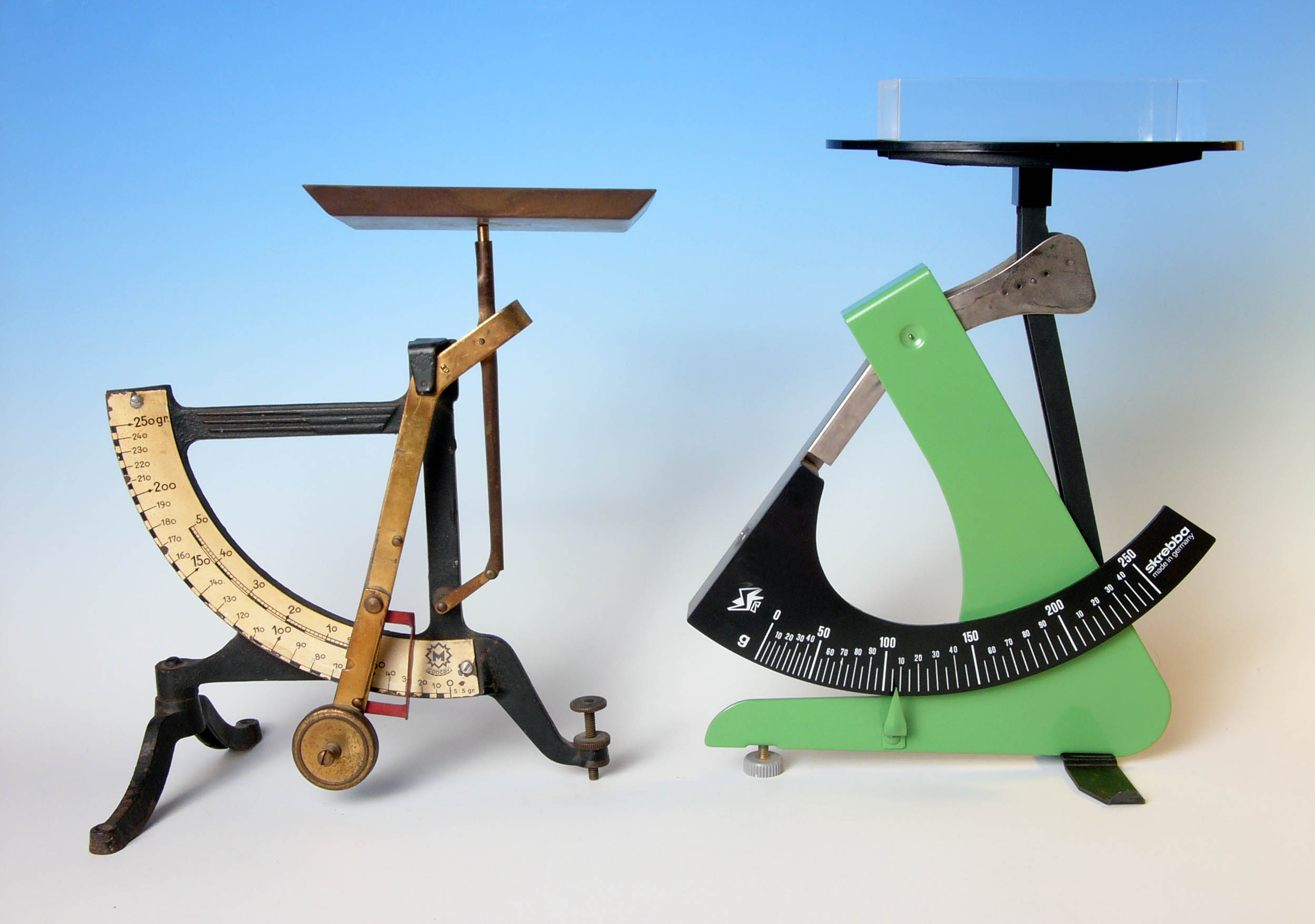 Letter balance from ab. 1940 (left) and 1975 (right)